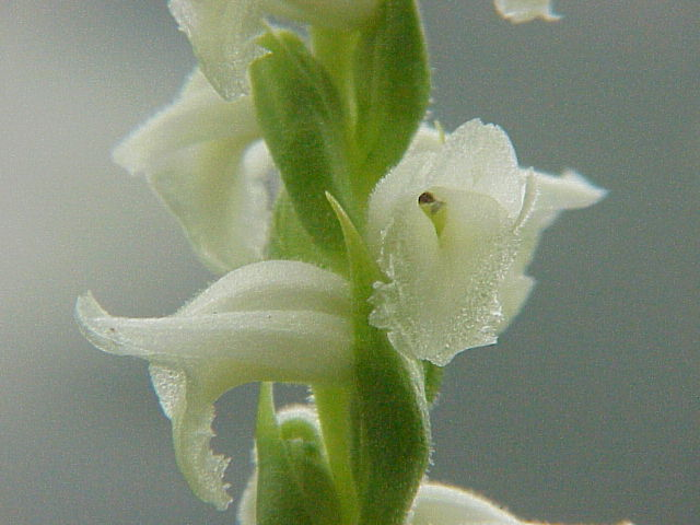 Species: Spiranthes cernua Family: Orchidaceae Image No. 1